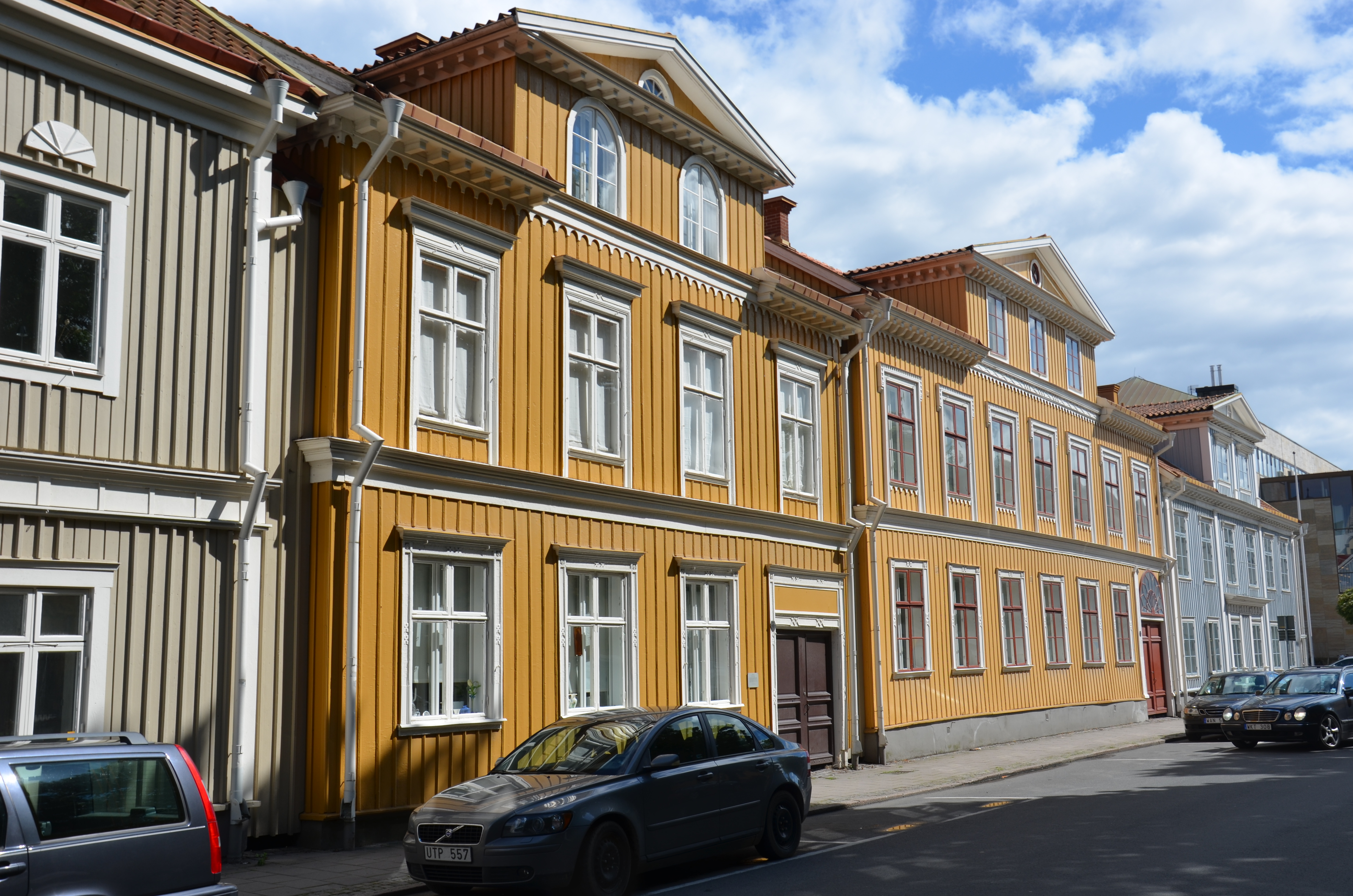 Museigatan 3 och 5, Jönköping (kvarteret Dolken)